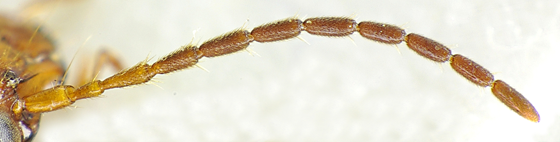 Diachromus germanus antenna